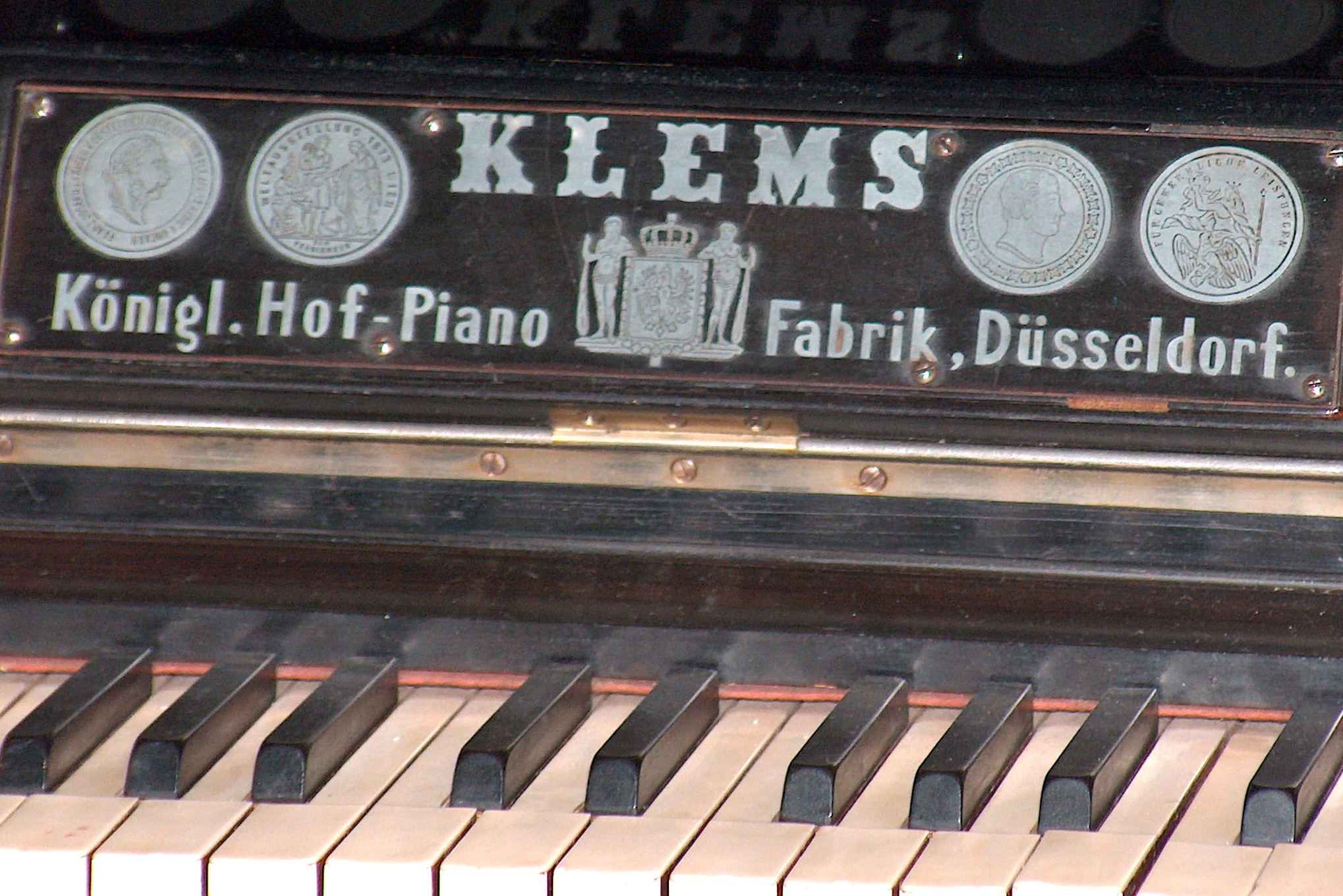 nameplate for a Klems piano (around 1860)